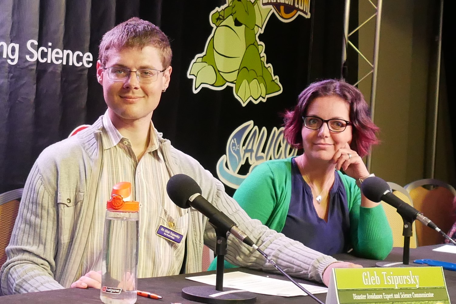 Gleb Tsipurski and Agnes Vishneukin of the Pro-Truth Pledge speaking at Dragon Con 2018